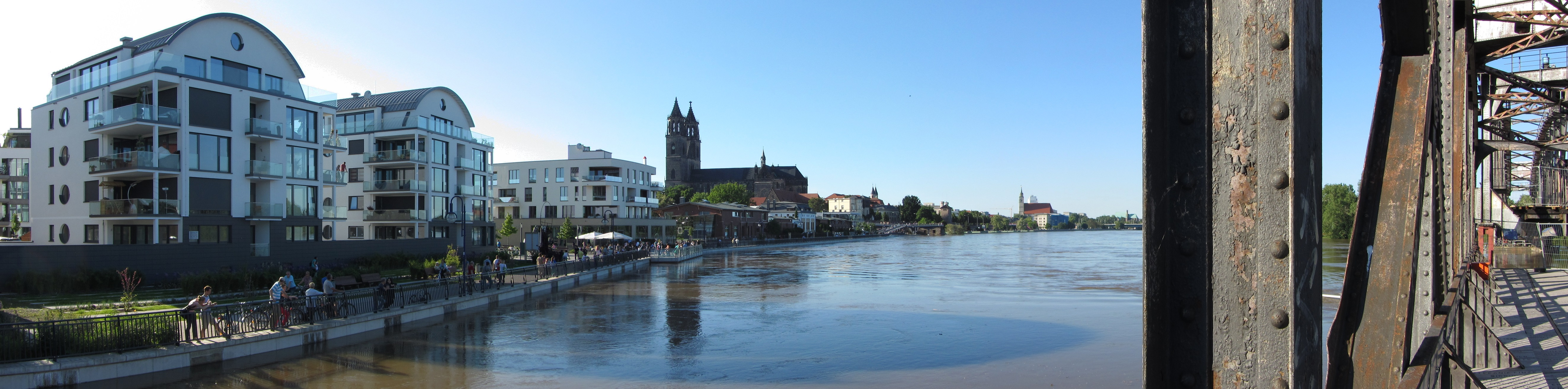 Panorama of the Elbe waterfront in Magdeburg while the flood 2013 was at its peak